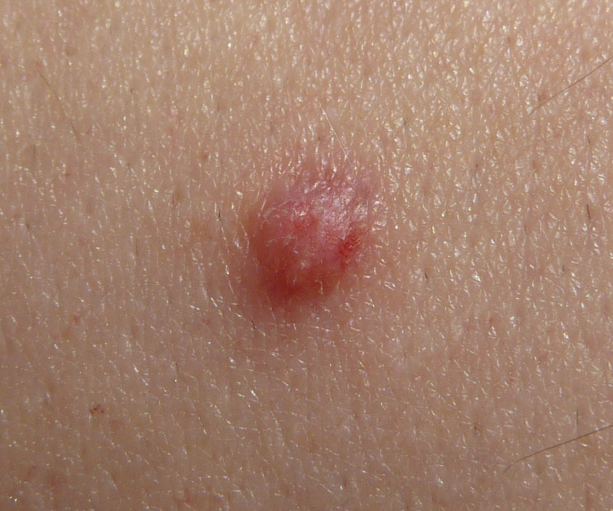 Papilloma. Human papillomavirus (HPV)